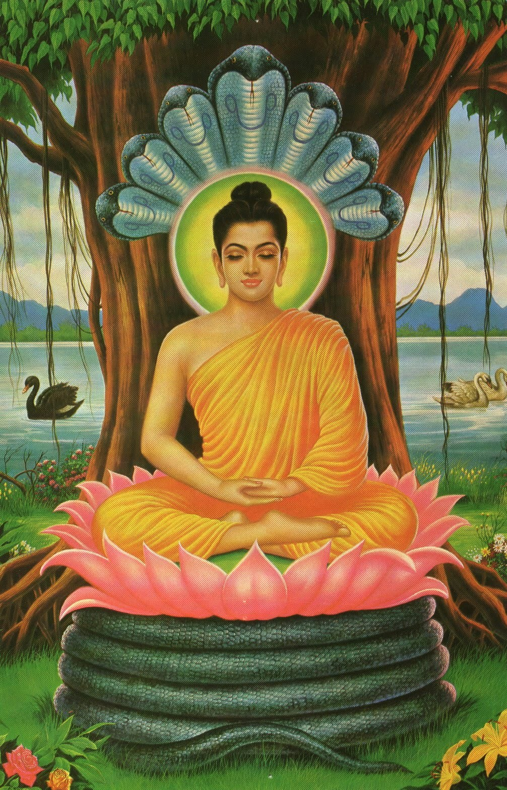 Paintings of Buddha meditating